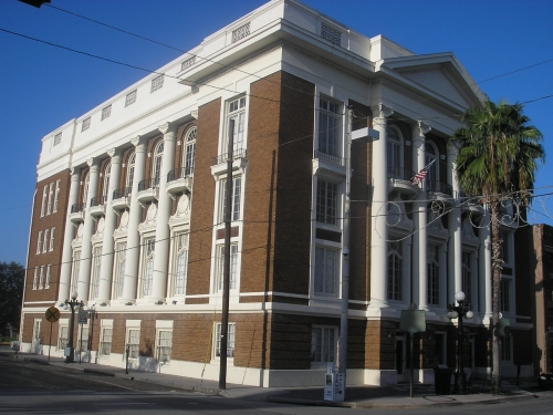 La Union Italiana (The Italian Club) today, Ybor City, Tampa